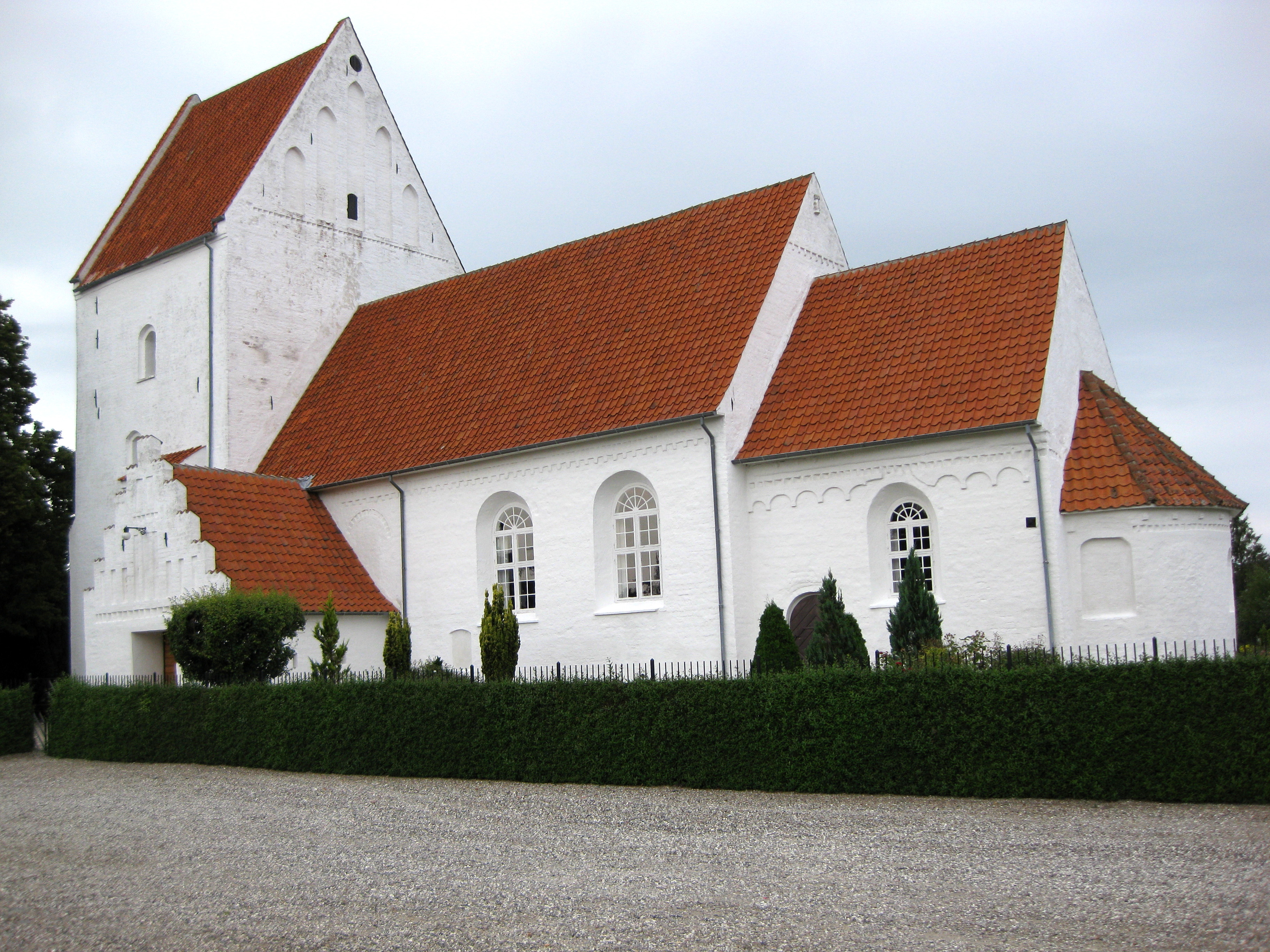 The church "Utterslev Kirke" located on the north-western part of the island Lolland in east Denmark.